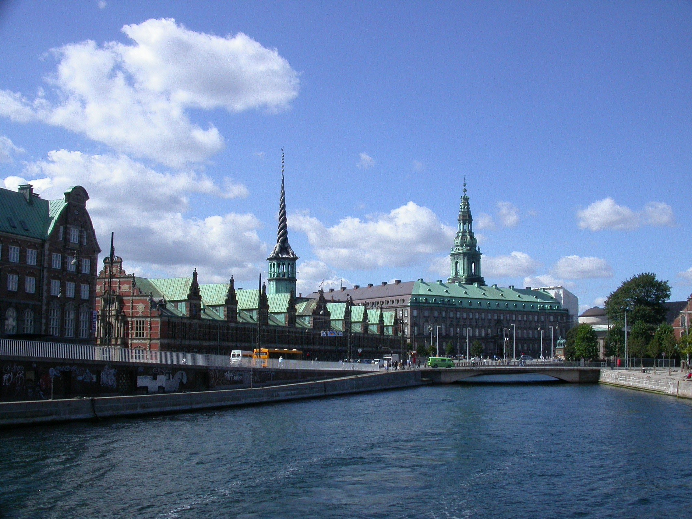 The Danish parliament and the former stock exchange